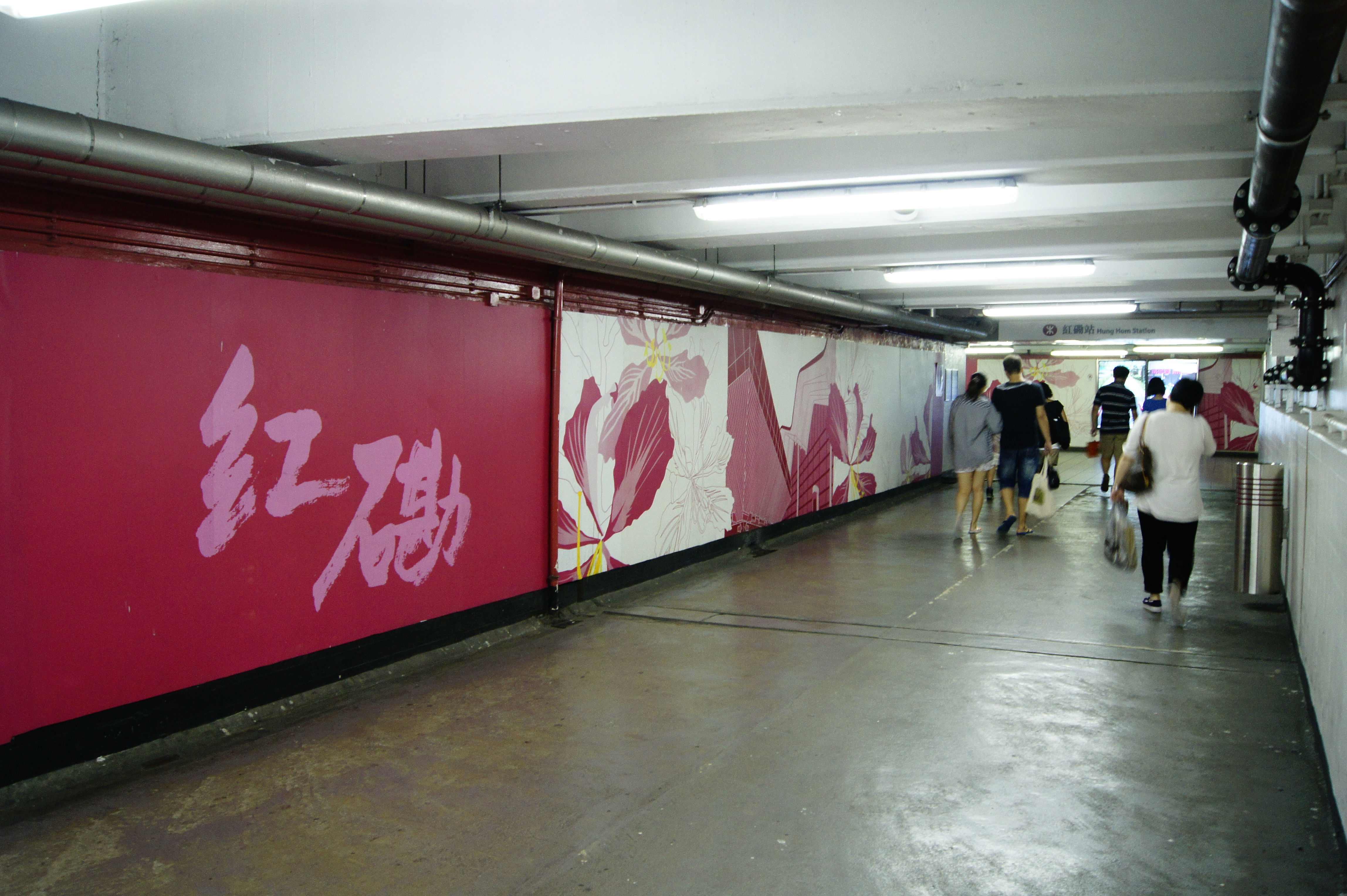 MTR Hung Hom Station Exit B1